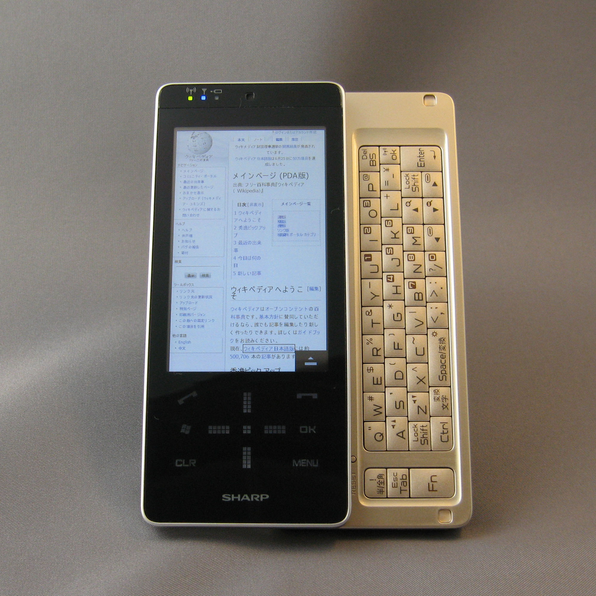 SHARP WS020SH "WILLCOM 03" , Japan